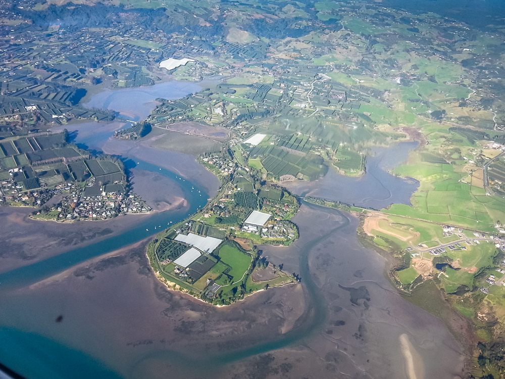 Aerial view of Farmland in the Bay Of Plenty